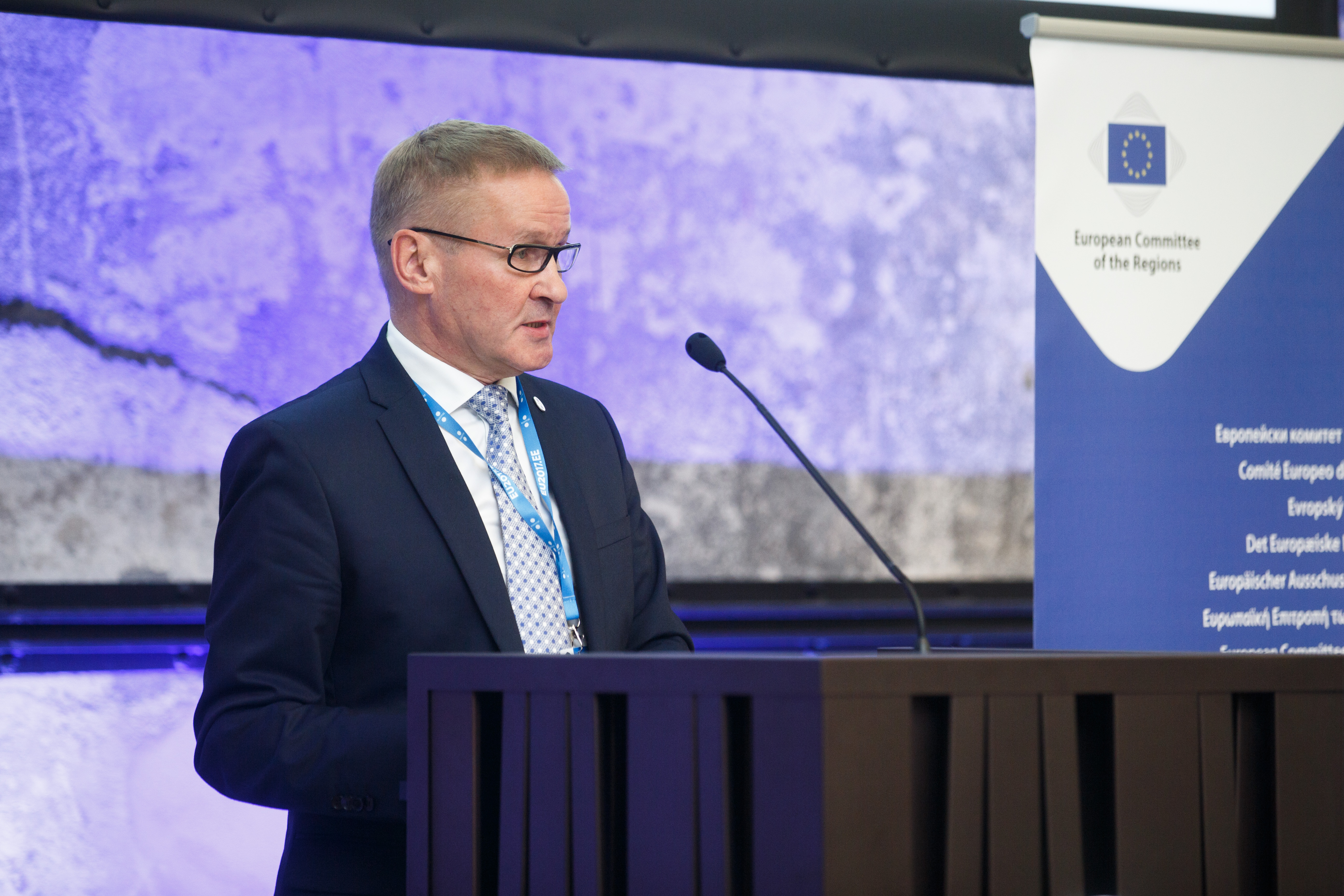 Jaak Aab, Minister for Public Administration, Estonia Photo: Raul Mee (EU2017EE)